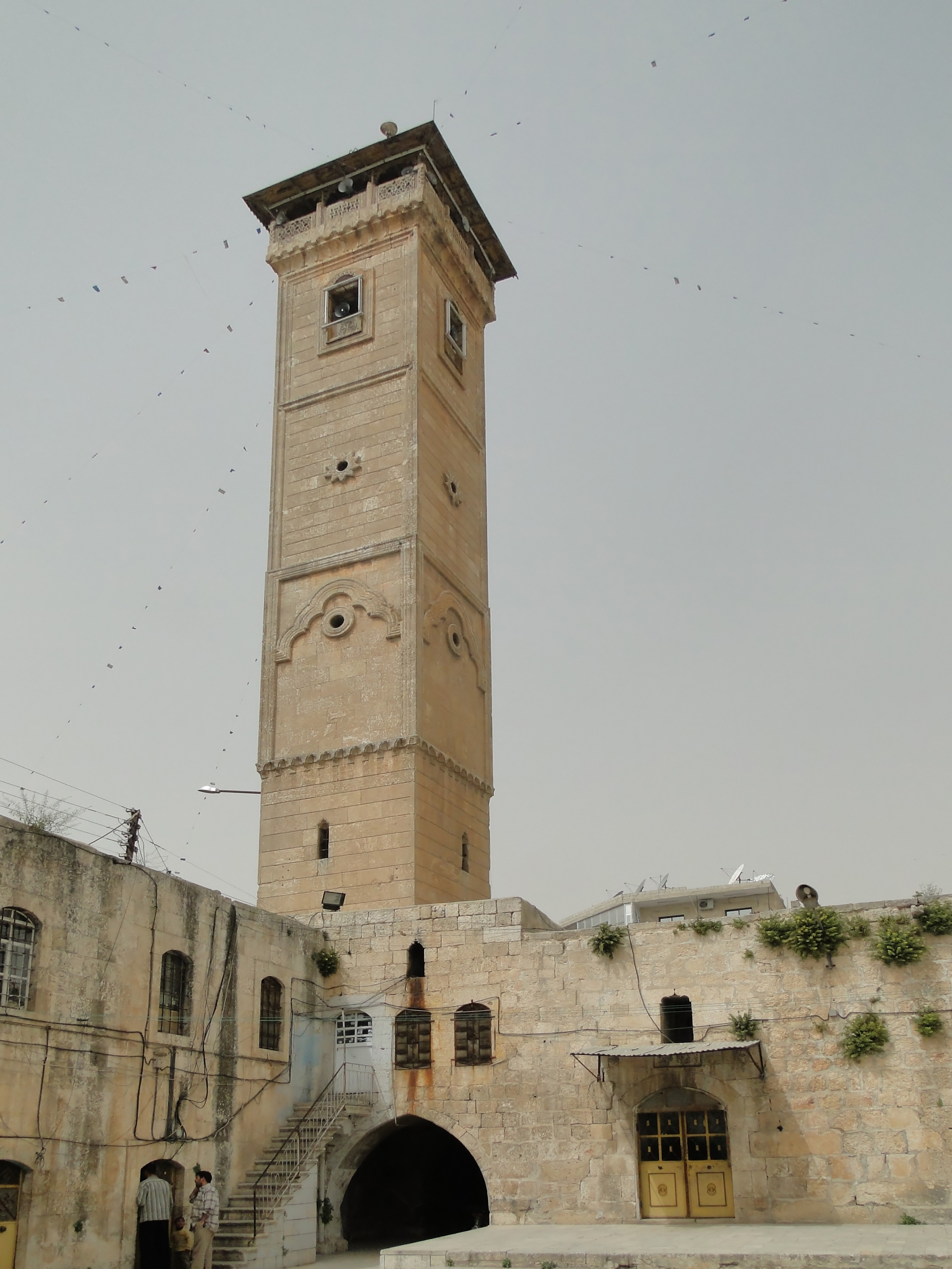 Great Mosque of Ma'arrat al-Numan, Syria